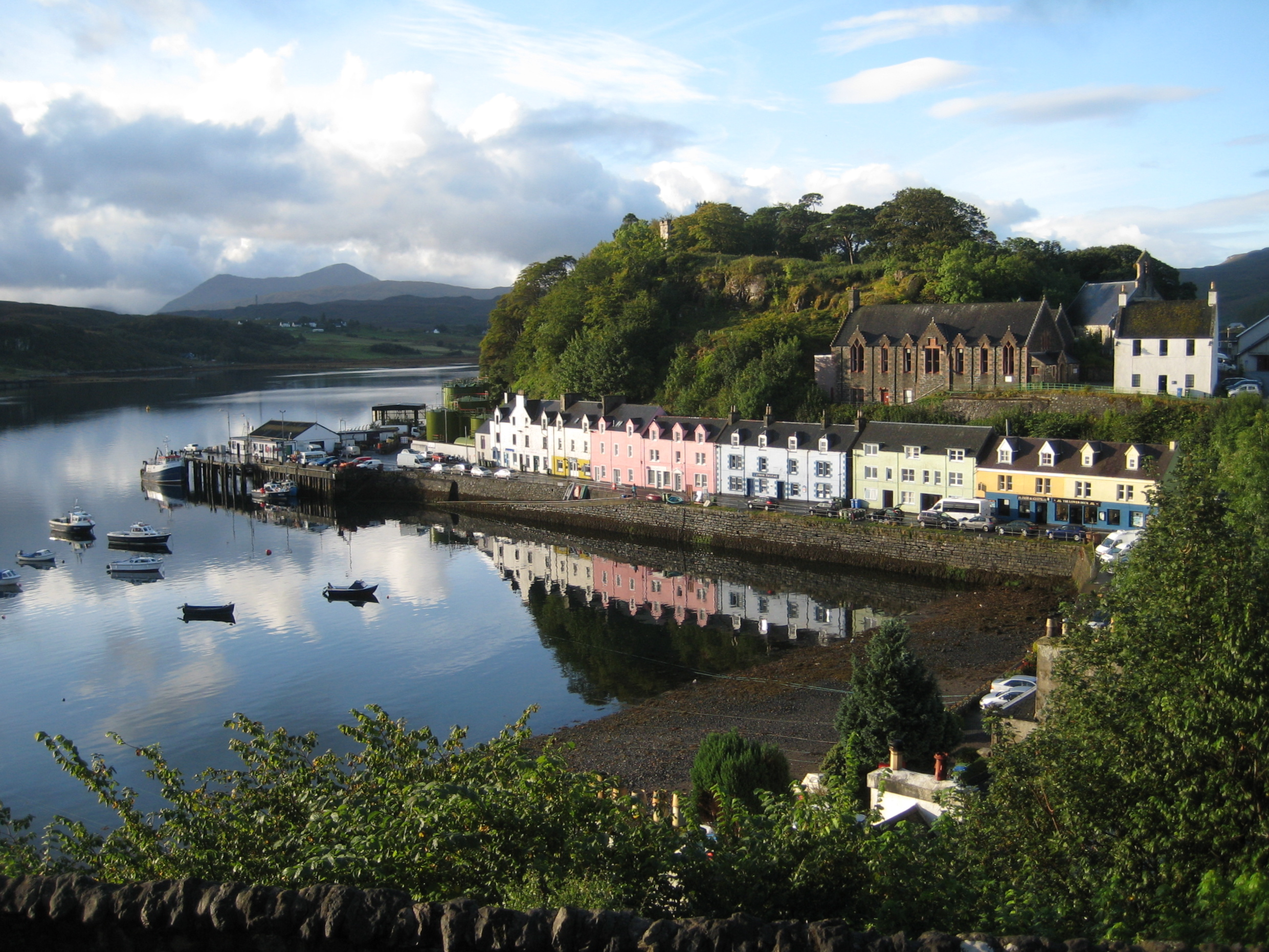 Portree, Isle of Skye (Scotland)